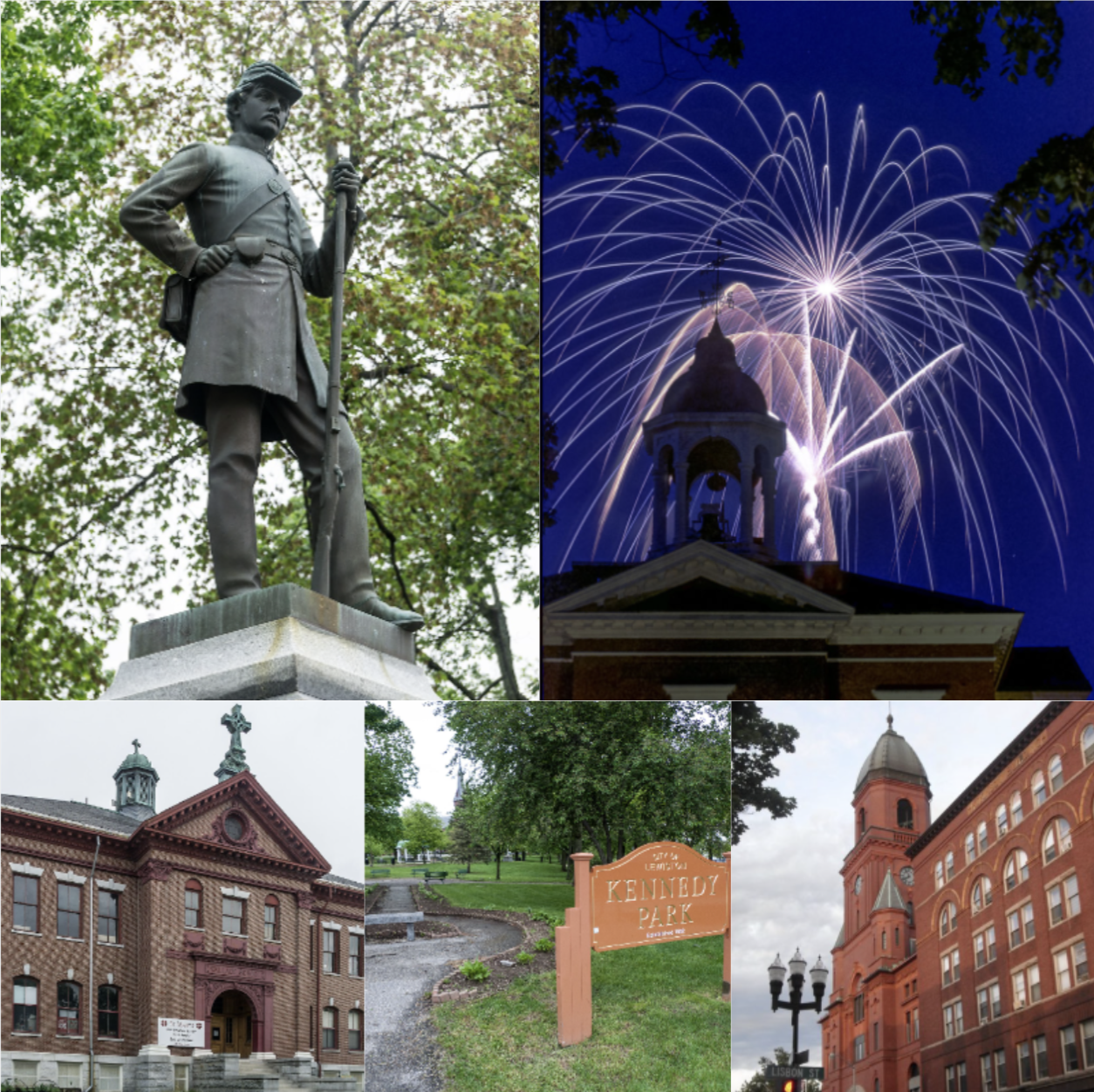 A montage of Lewiston sites